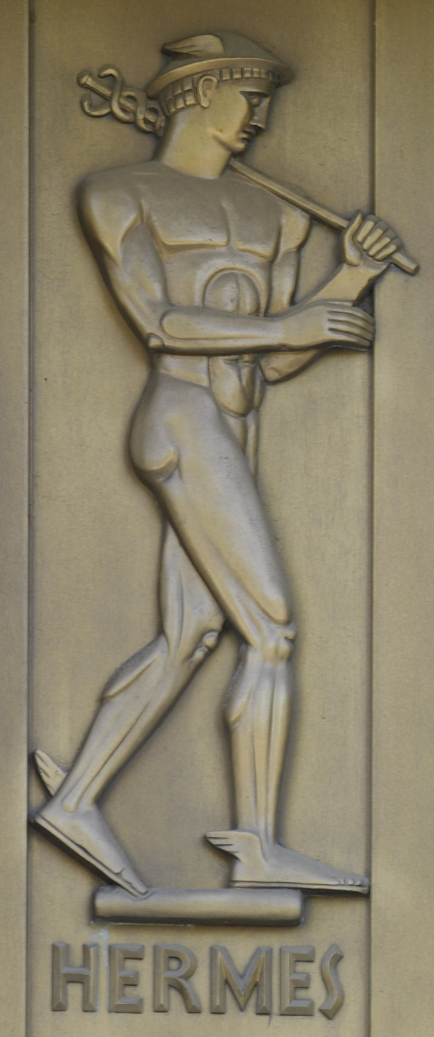 Hermes, sculpted bronze figure by Lee Lawrie. Door detail, east entrance, Library of Congress John Adams Building, Washington, D.C.